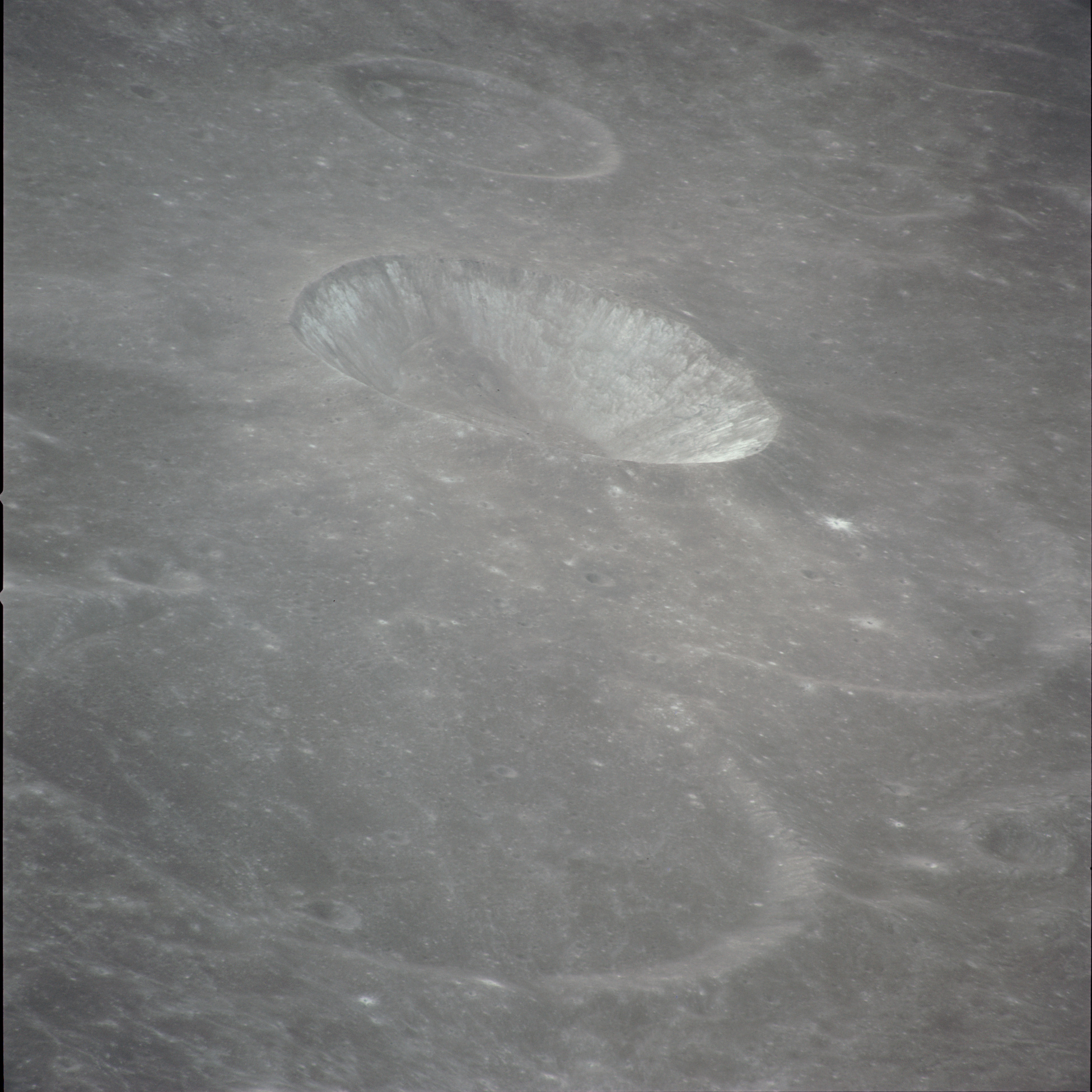 Oblique view of Hume (foreground), Hume A (right), and Hume Z (above center), in Mare Smythii, the moon. Crater at top center is unnamed. Facing north.